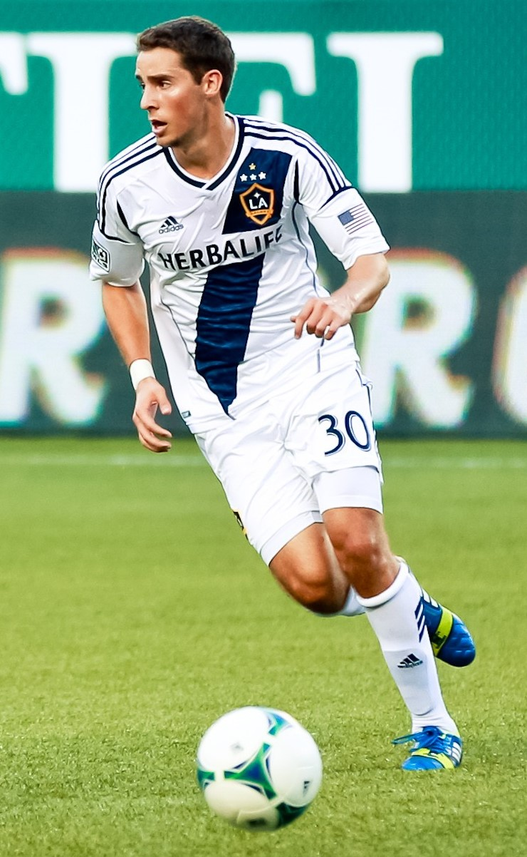 Photo of the LA Galaxy's Chandler Hoffman at Portland